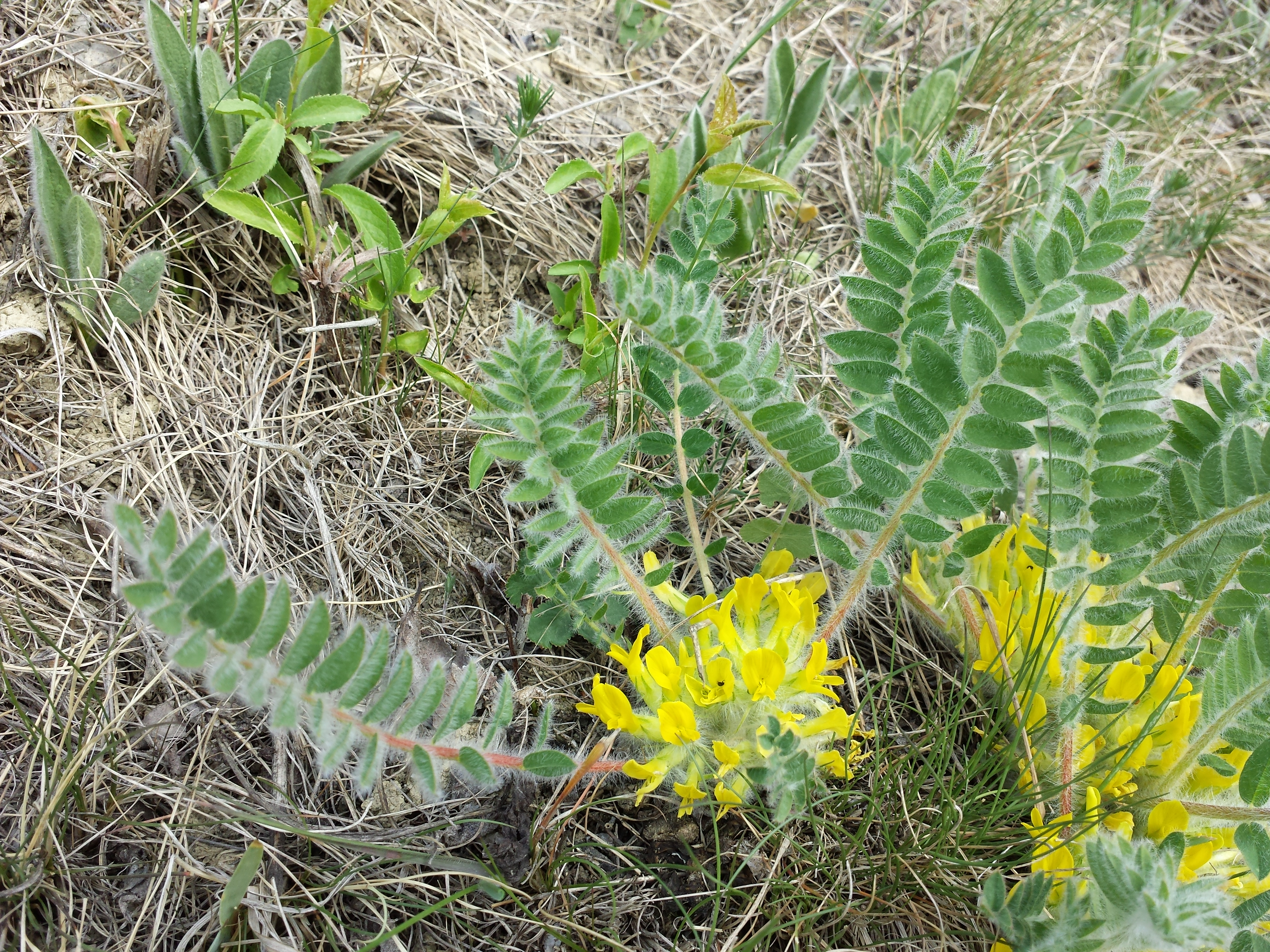 Habitus Taxon: Astragalus exscapus (sensu Fischer et al. EfÖLS 2008 ISBN 978-3-85474-187-9) Location: nature reserve Mühlberg, district Hollabrunn, Lower Austria - ca. 260 m a.s.l. Habitat: dry grassland over Loess This media shows the nature reserve in Lower Austria with the ID 9.